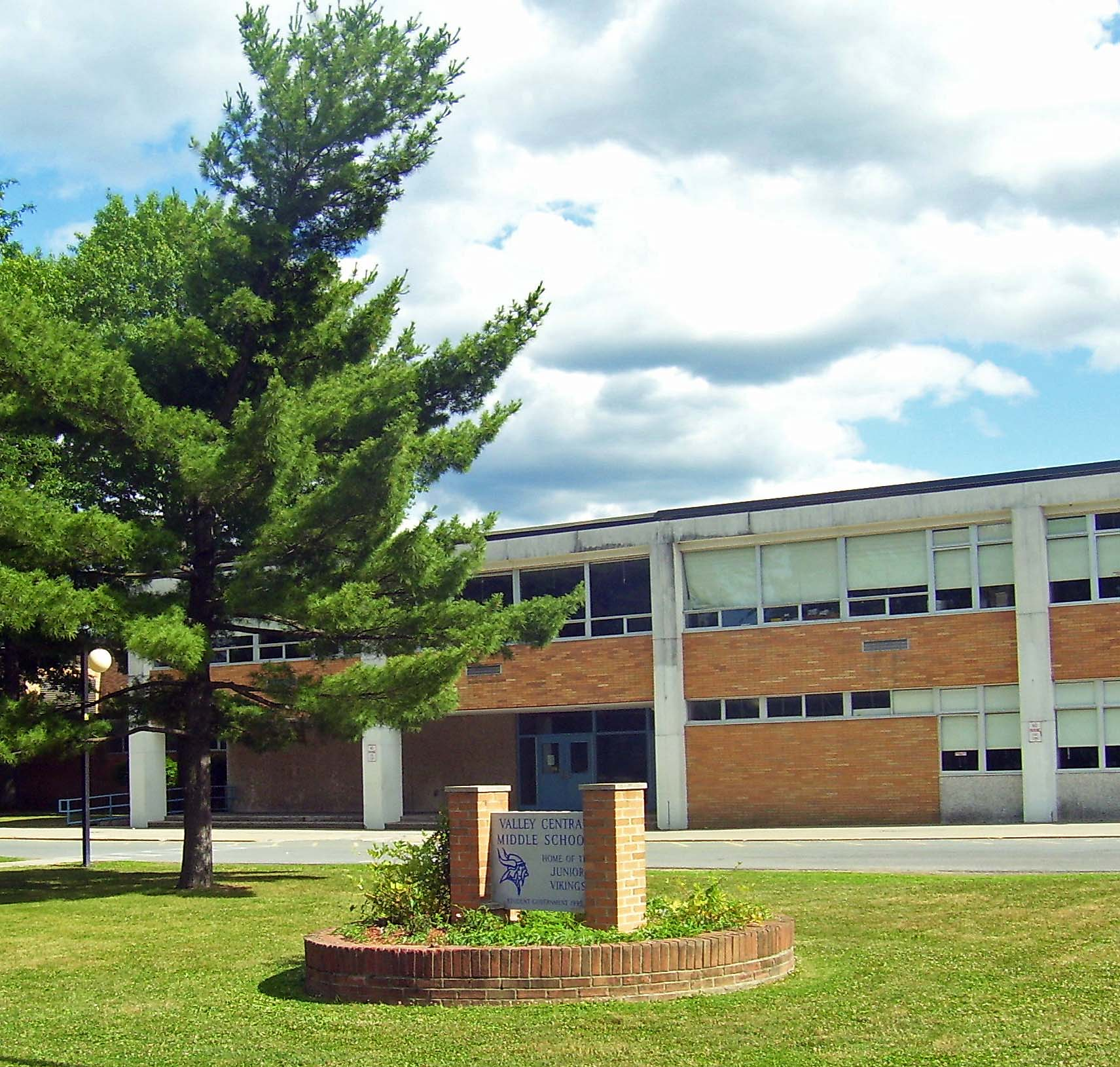 Valley Central Middle School, part of the Valley Central School District in the Town of Montgomery, NY, USA